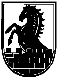 Unofficial coat of arms of the region Schoenhengstgau (see, for example Schoenhengster Heimatbund e.V., Forum für den Schoenhengstgau et all)